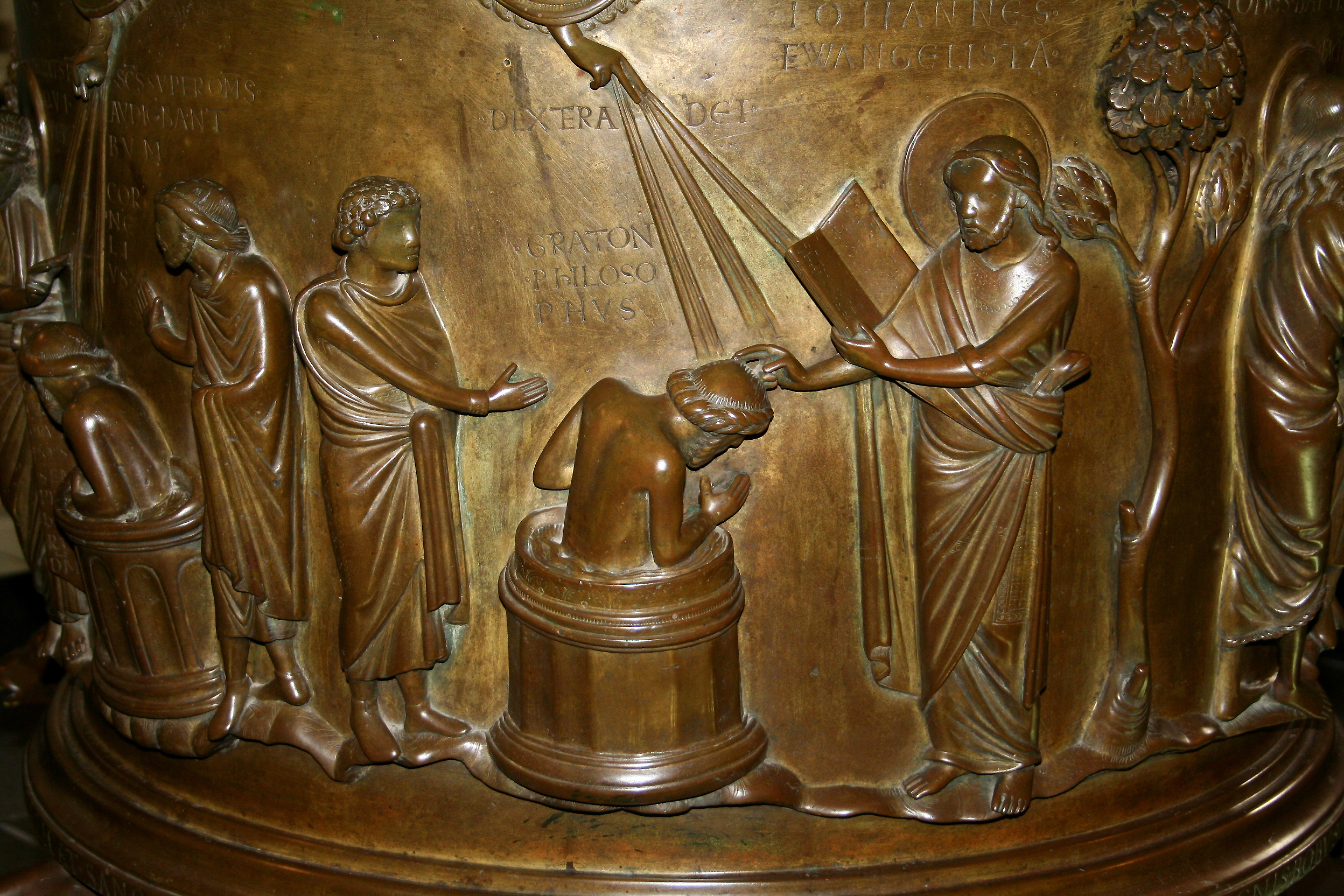 Liège (Belgium), Saint Bartholomew's church - Baptismal font of Renier de Huy (begin of the XIIth century). - The baptism of the Greek philosopher Crato.